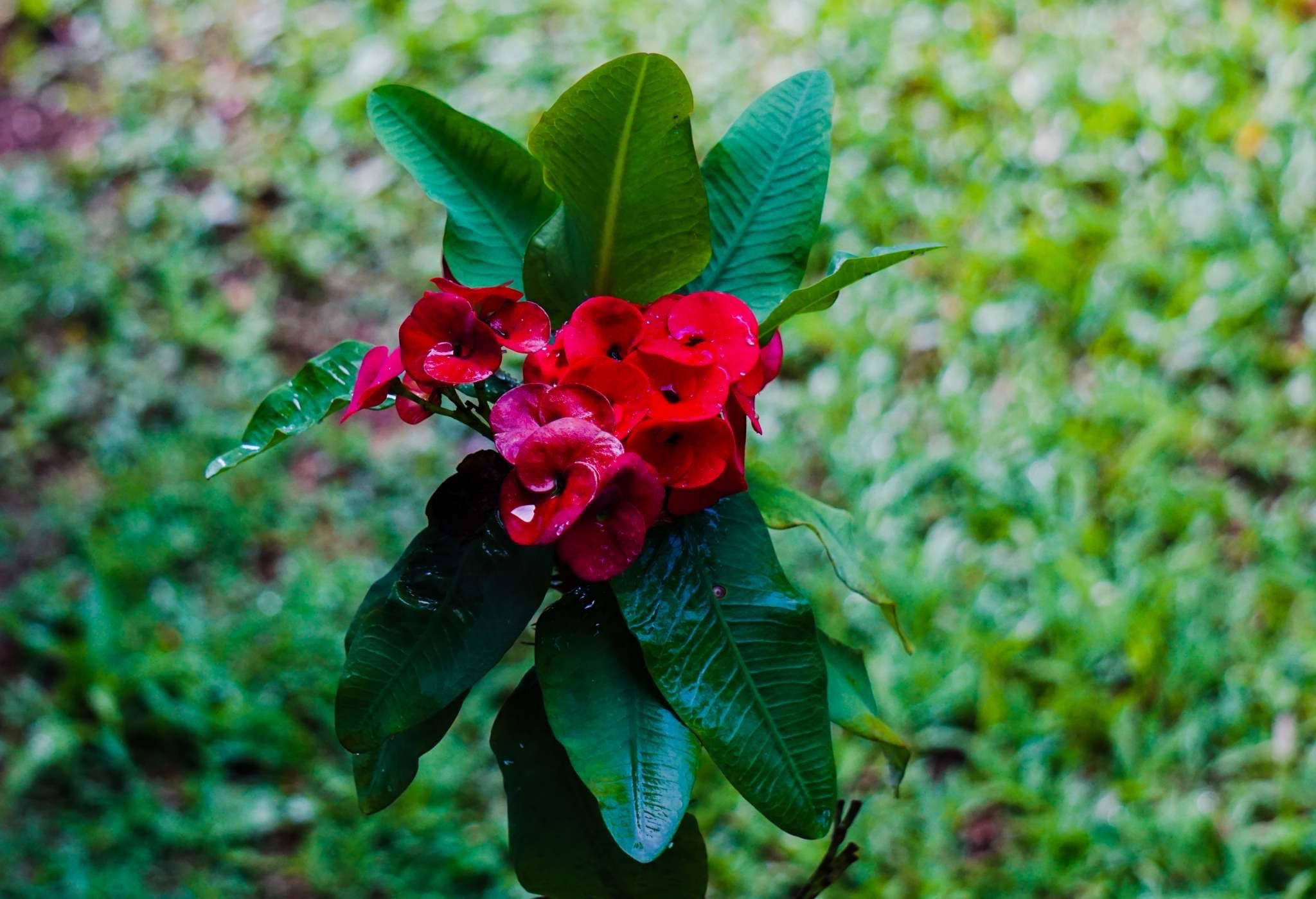 Flowery Florida